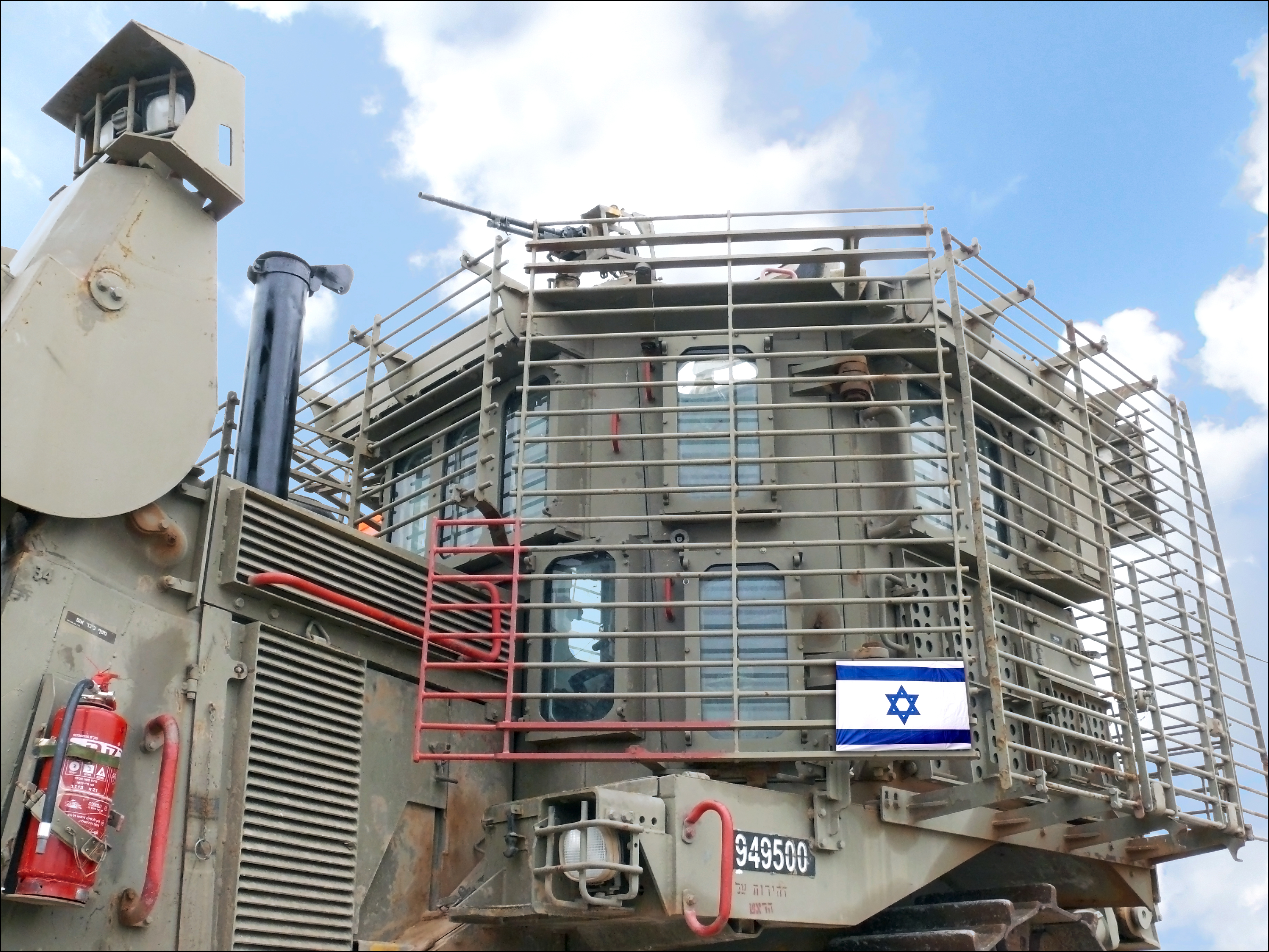 IDF Caterpillar D9R armored bulldozer with slat armor